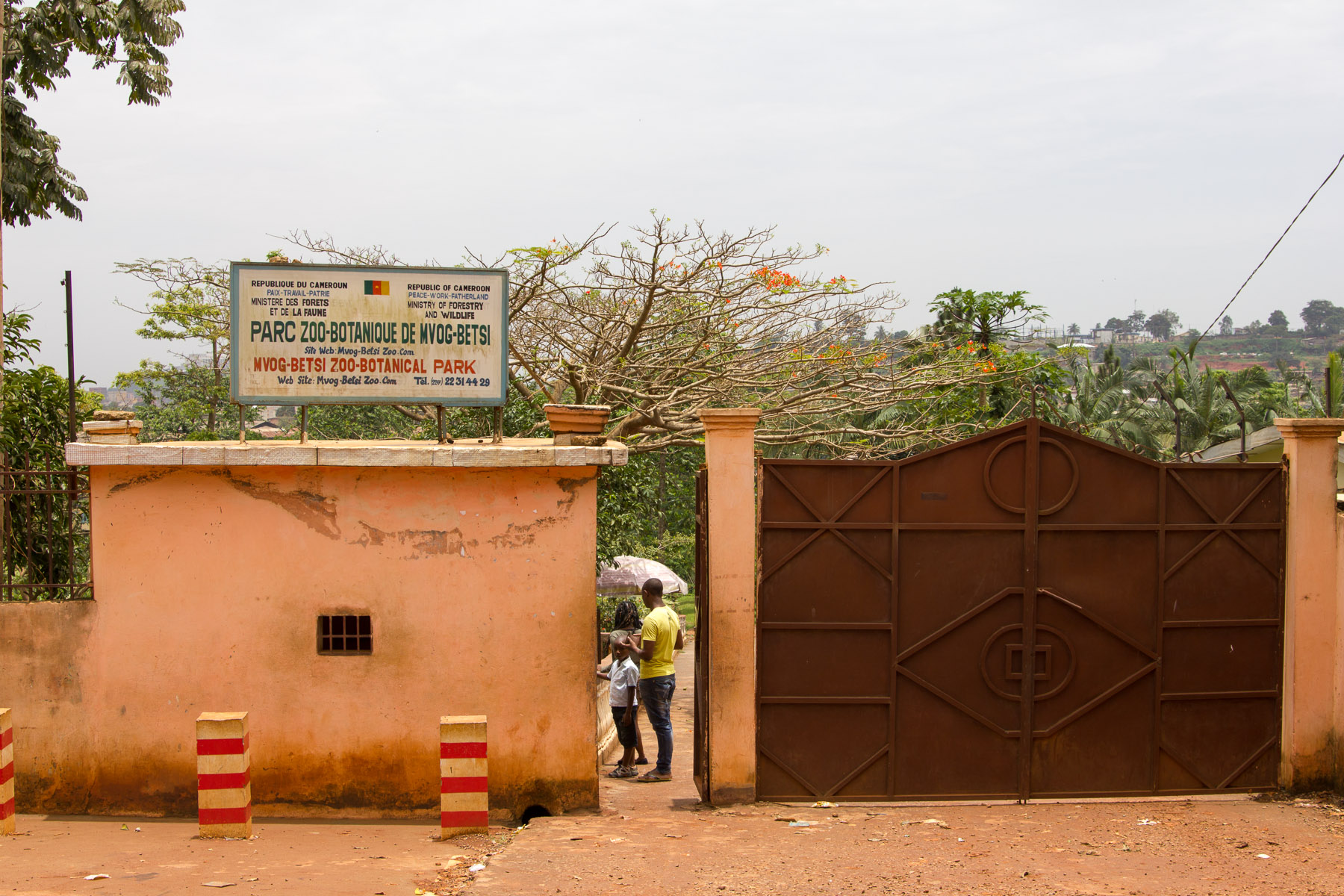 Entrance to Mvog-Betsi Zoo-Botanical Park in Yaounde, Cameroon.